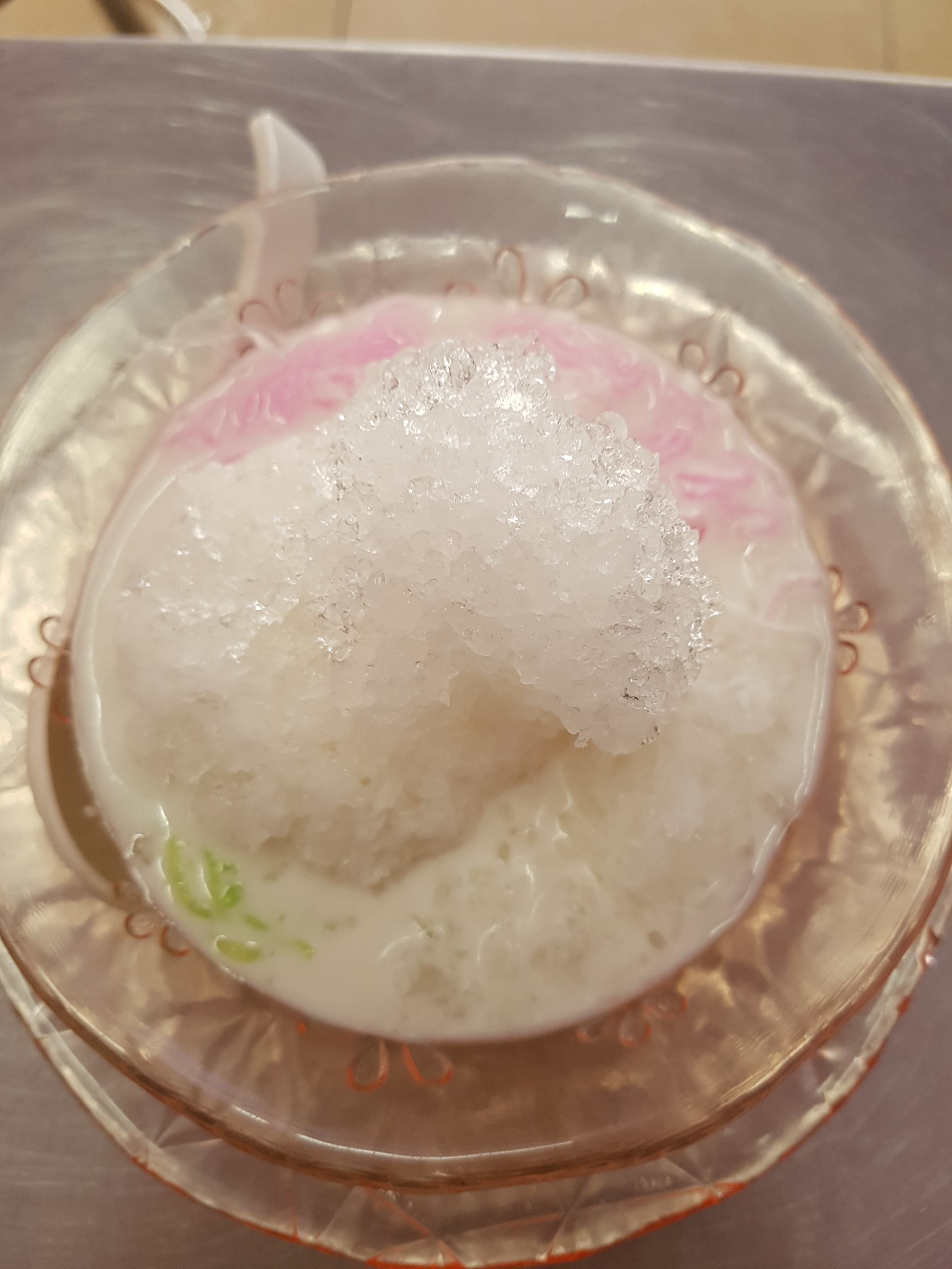 Sarim (ซ่าหริ่ม) as sold at Wang Lang (วังหลัง; "Rear Palace"), Bangkok, Thailand.